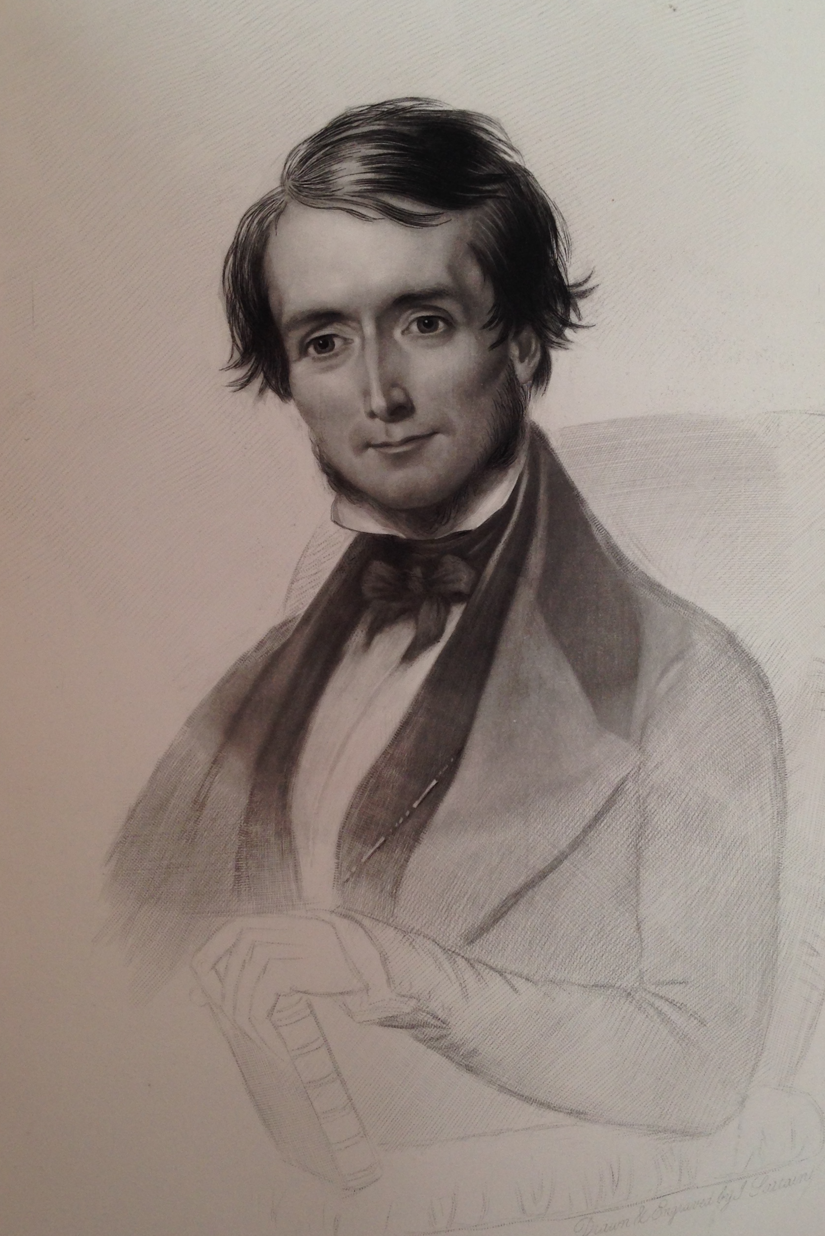 Based on an engraving by John Sartain. This appears in the Diadem gift book of 1846. This book is in possession of the uploader.